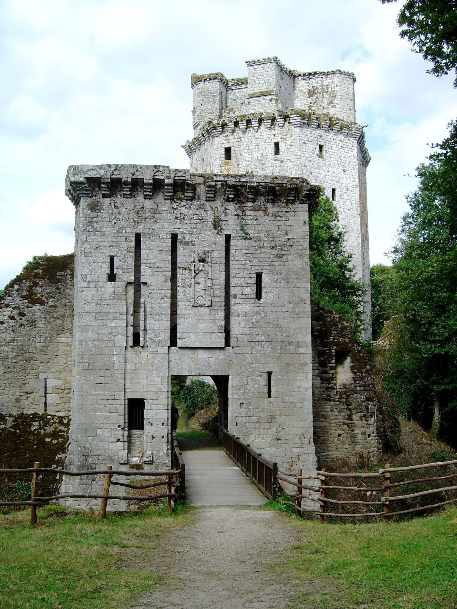 Castle of Largoet in Elven, France.